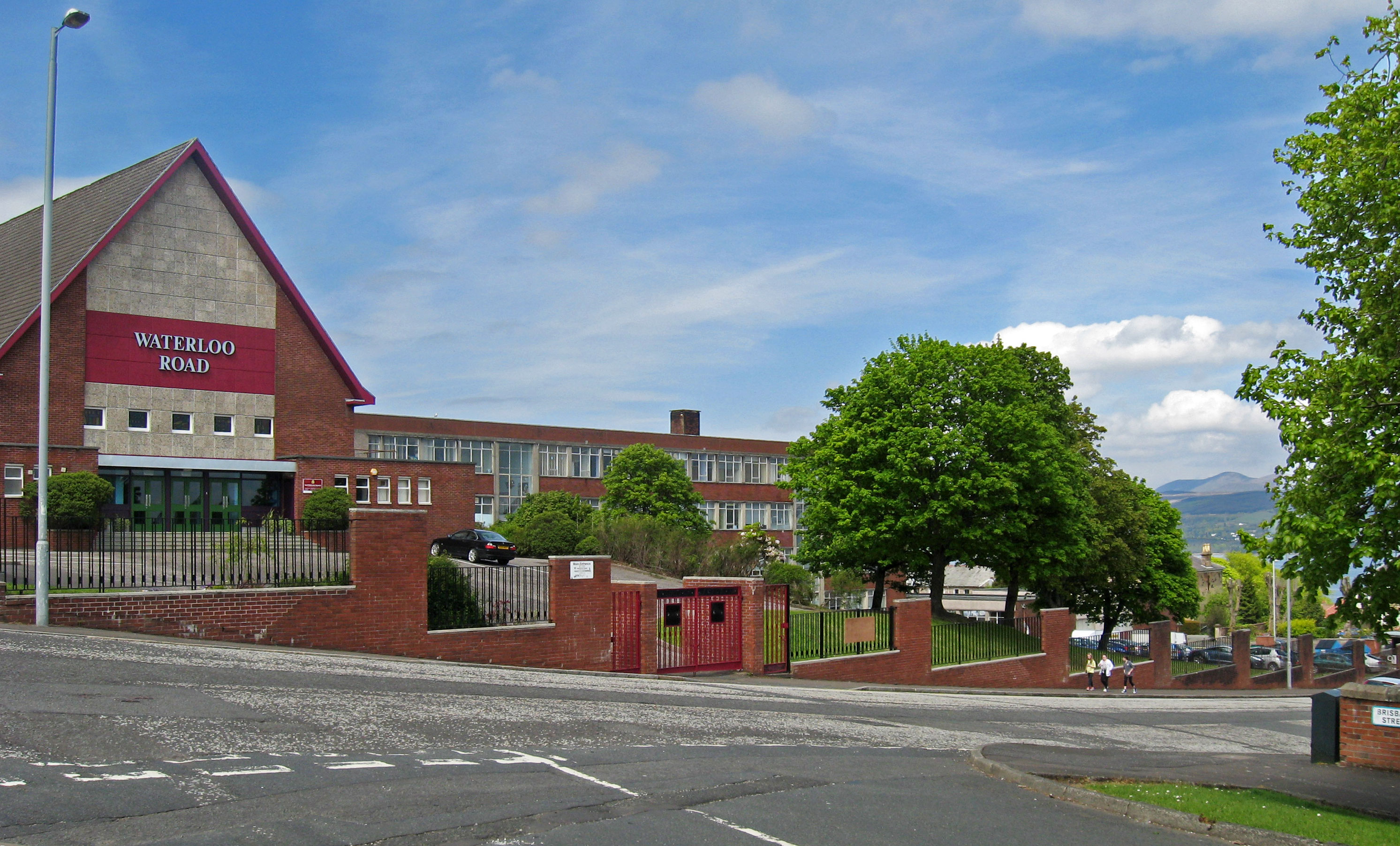 Greenock Academy buildings, adapted for Waterloo Road (BBC TV series): Madeira Street entrance, seen from the east, with view north over the Tail of the Bank at the upper Firth of Clyde.